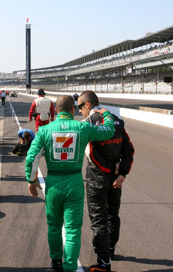 Dario Fanchitti and Tony Kanaan compare notes on Pole Day for the 2007 Indy 500. Photo by Tim Wohlford